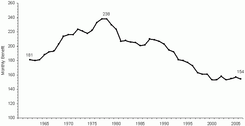 A chart showing average monthly welfare benefits (Aid to Families with Dependent Children (AFDC), later replaced by Temporary Assistance for Needy Families (TANF)), per recipient, in constant 2006 dollars.